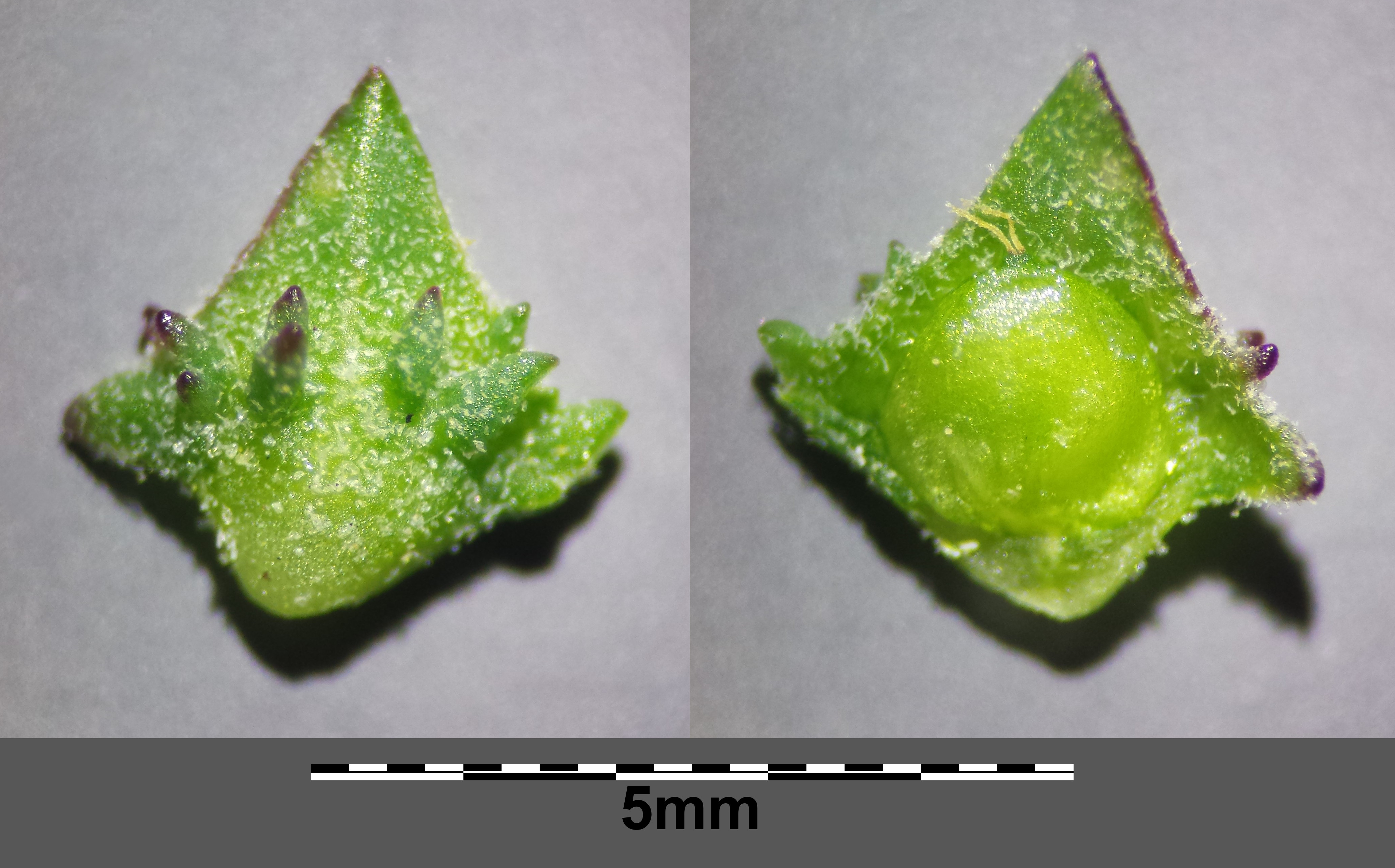 Female flower with two prophylls, on the right front prophyll removed Taxonym: Atriplex patula ss Fischer et al. EfÖLS 2008 ISBN 978-3-85474-187-9 Location: Schwarzlackenau, Vienna-Floridsdorf - ca. 160 m a.s.l. Habitat: ruderal area